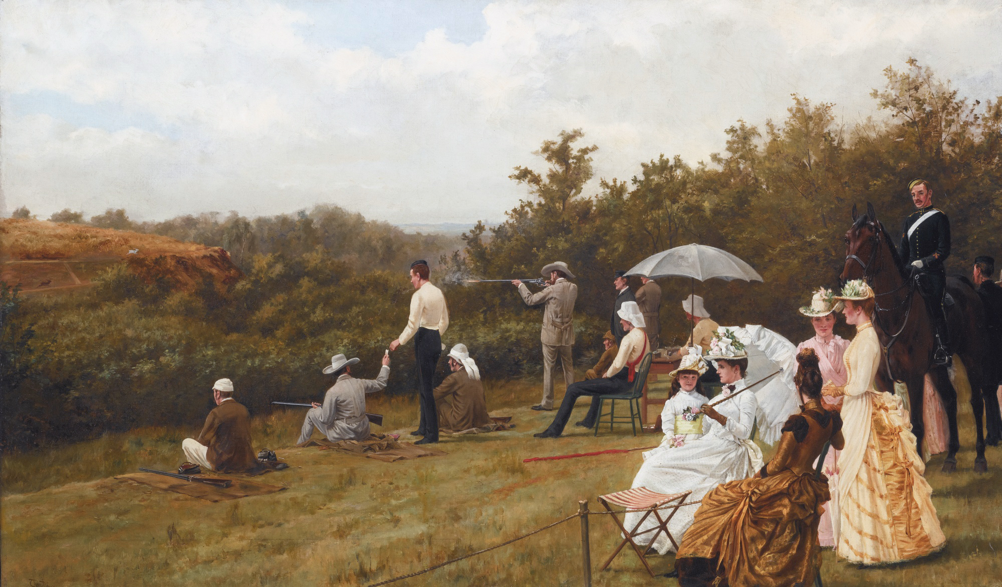 Walter Winans on the Running Deer Range, Wimbledon Common oil on canvas 68.6 x 114.3 cm signed b.l: Thos. Blinks 1888